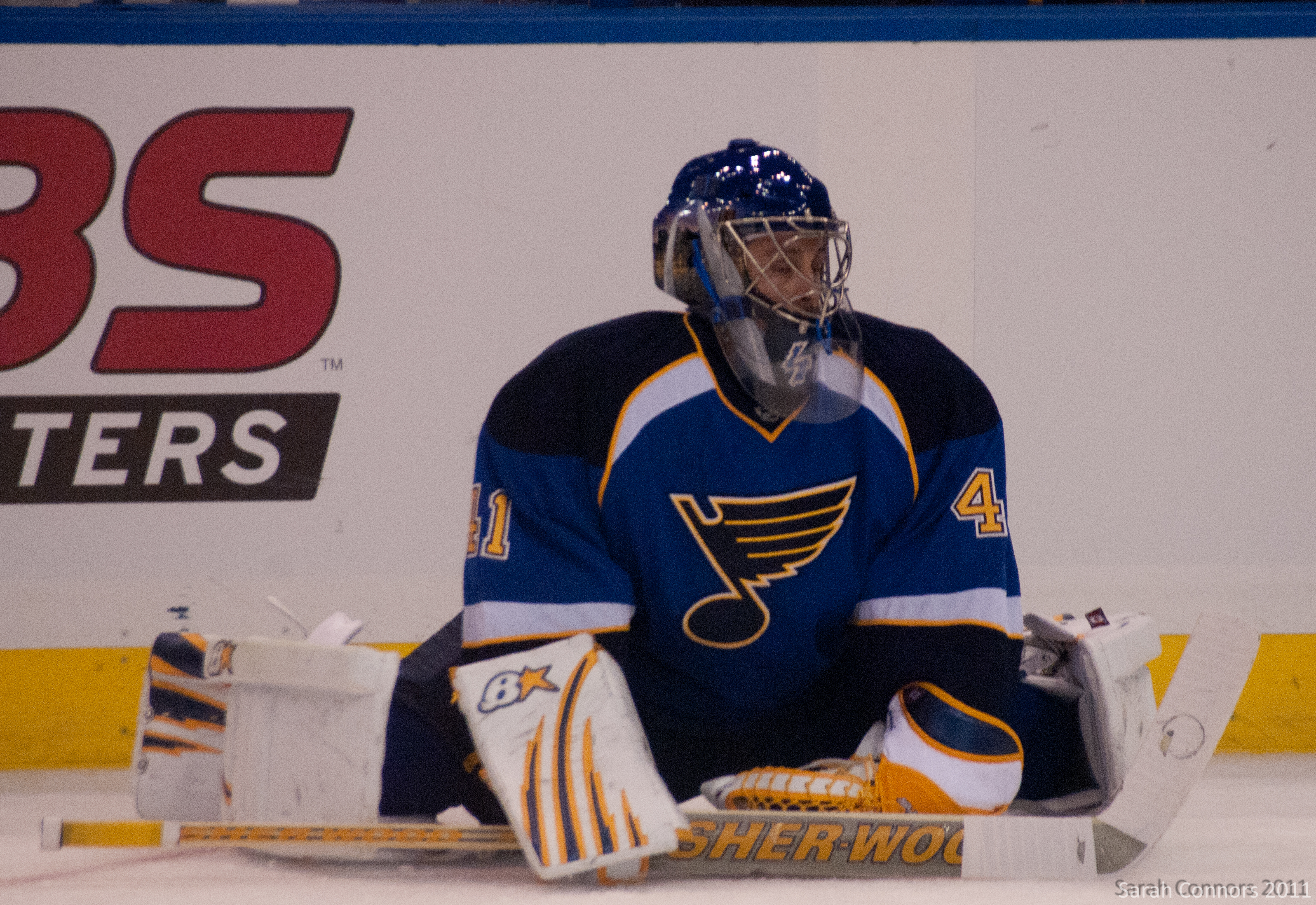 Goaltender Jaroslav Halák of the St. Louis Blues during a preseason game (2011)